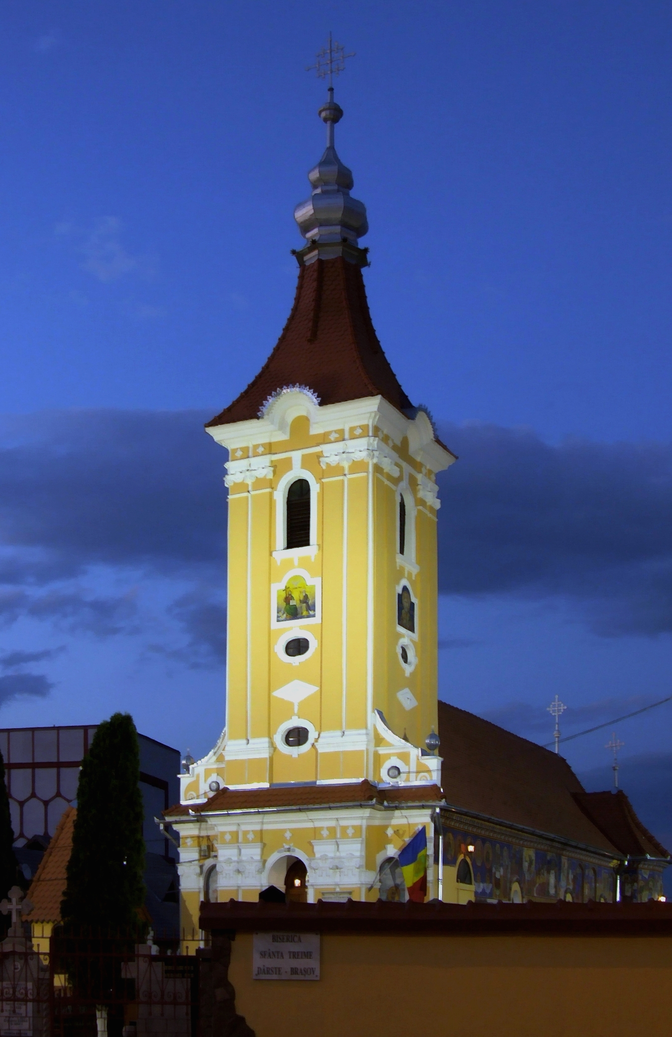 Church in Dârste (Derestye, Walkmühlen), Brasov